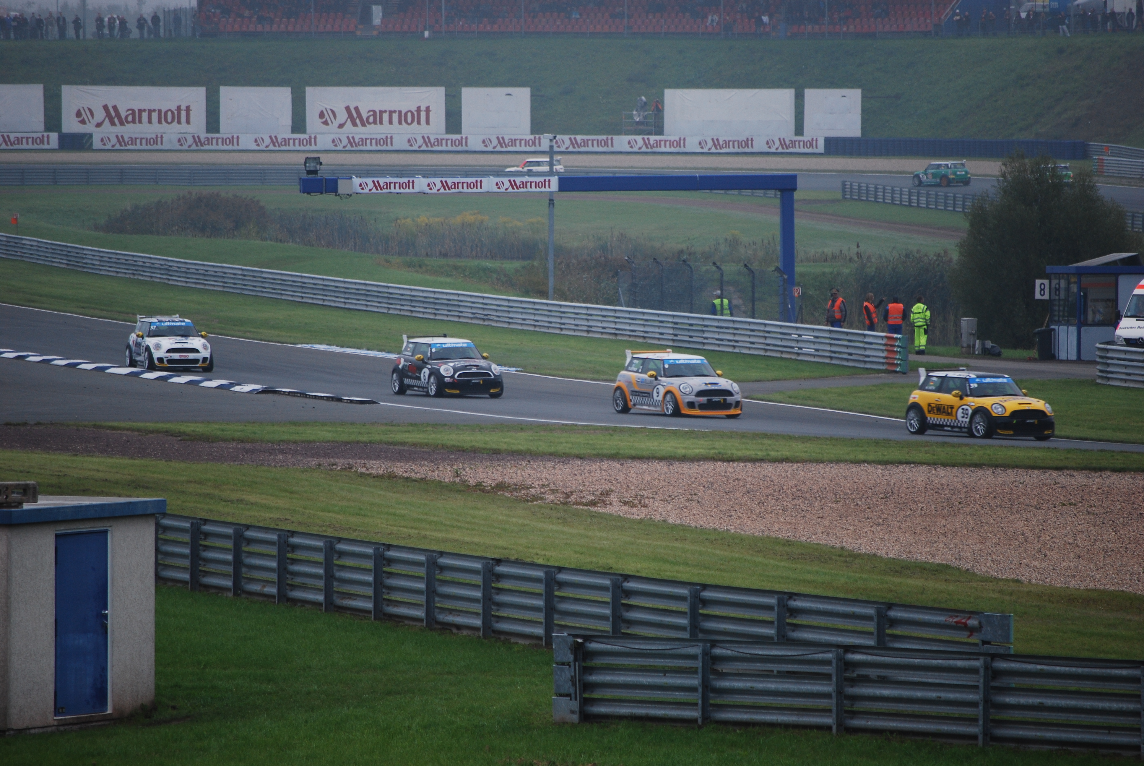 Race 2 of the 2010 Oschersleben race was started in medium fog dense. Field of the MINI Challenge Germany. From right to left: Hendrik Vieth, Fredrik Lestrup, Stefan Landmann, Daniel "Maverick" Haglöf